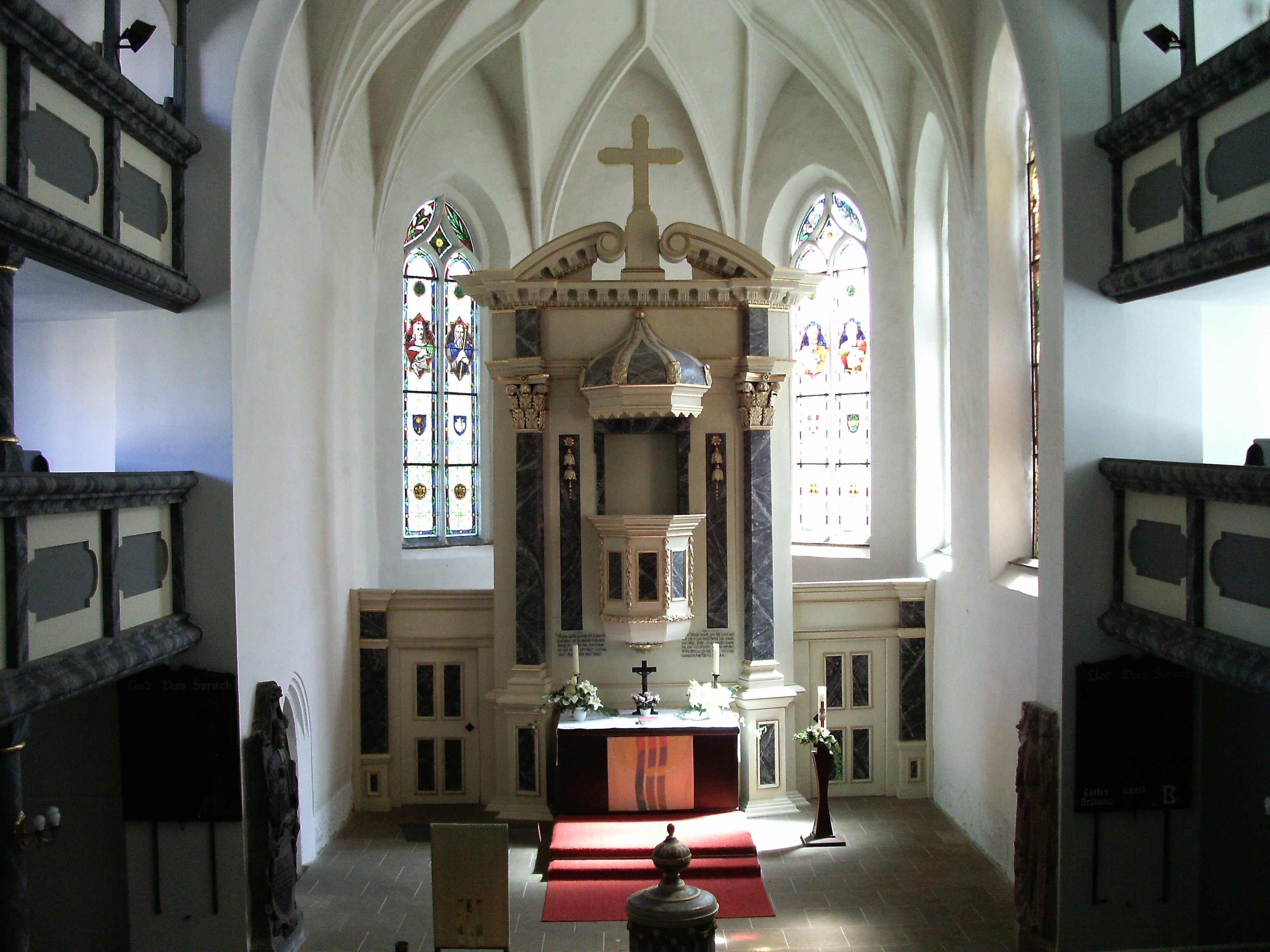 Choir of the church of the town of Naunhof (Leipzig district, Saxony) from the first gallery